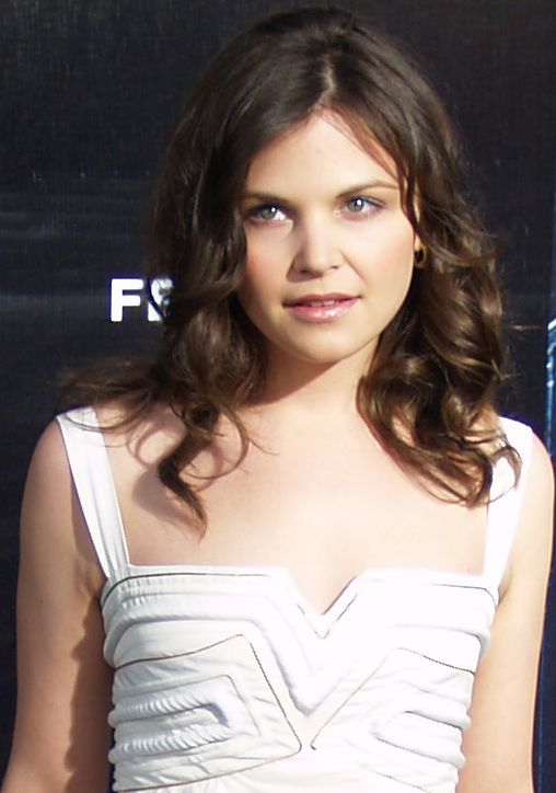 Ginnifer Goodwin at the Spider-Man 3 premiere, 2007